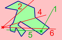 Illustration of Jordan method to proove the Jordan Curve theorem